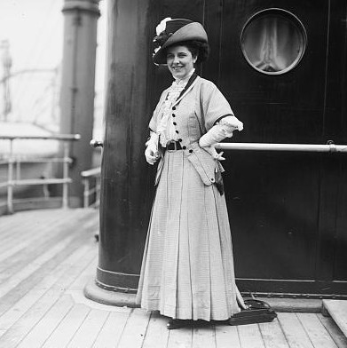 Geraldine Farrar, opera singer and film actress